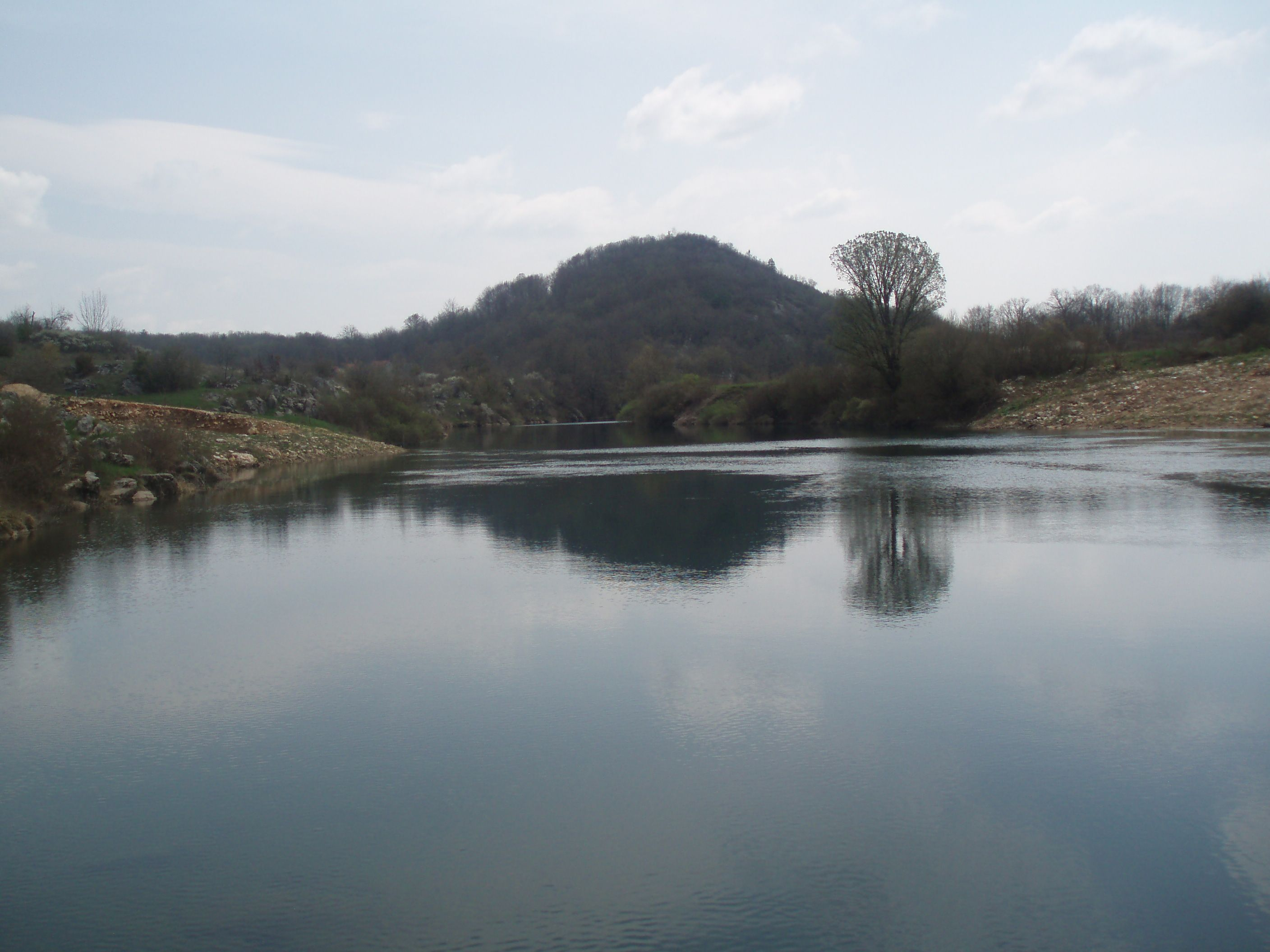 Lika river upstream of the Kosinj Bridge.